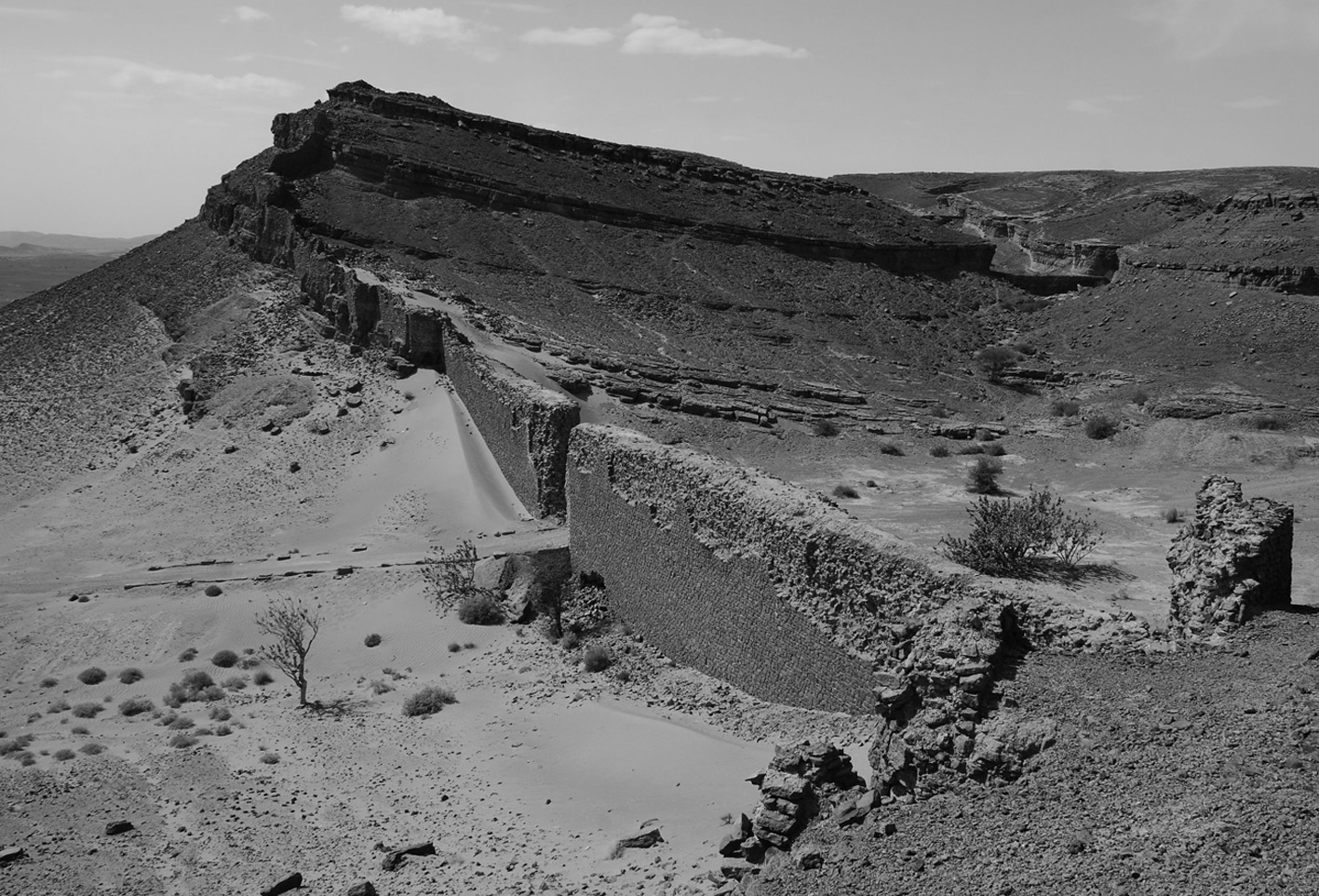 The lower wall of Jebel Mudawwar/Gara Medouar, Morocco; photo by Chloe Capel